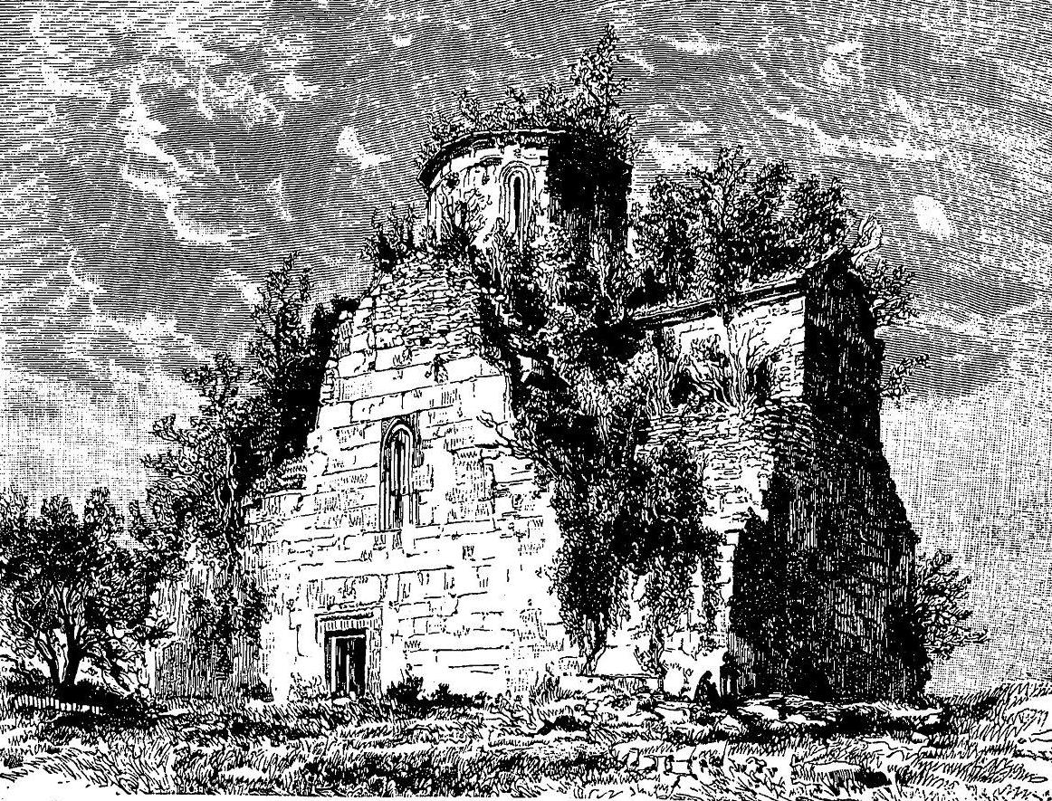 Bedia church (Roskoschny, 1884)